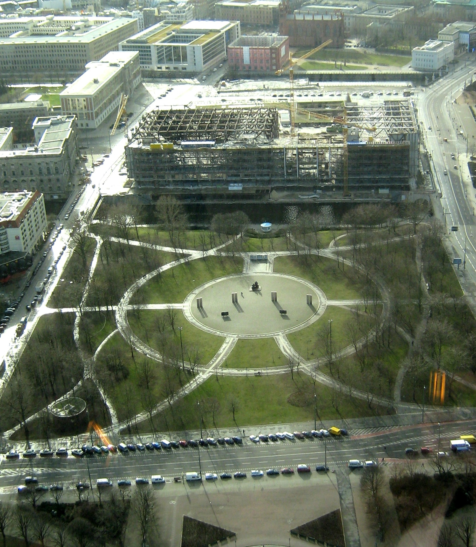 Berlin:view from TV-tower (Alexanderplatz) towards Marx-Engels-Forum and the demolition of the Palast der Republik